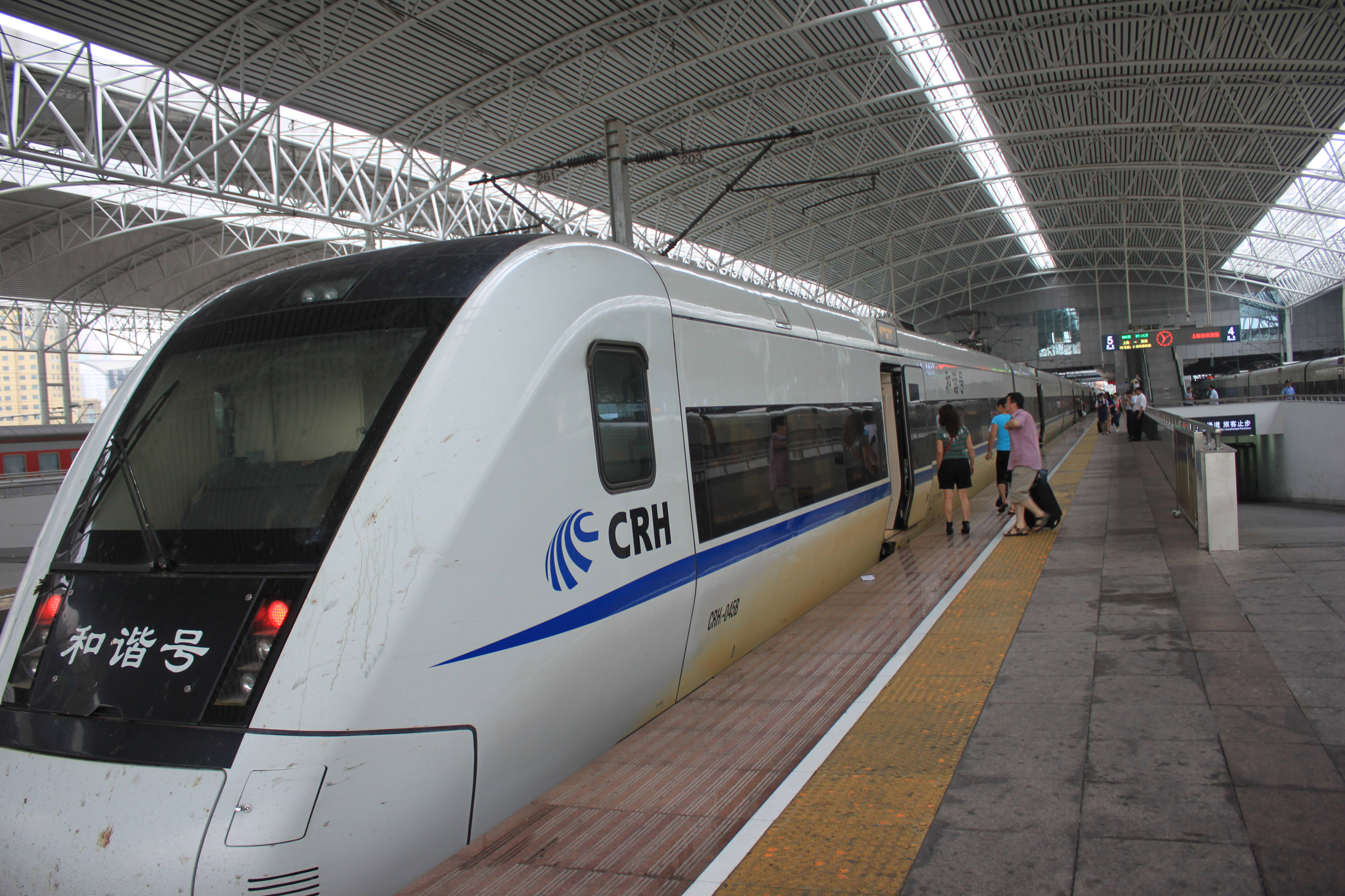 CRH1B at Shanghai Station